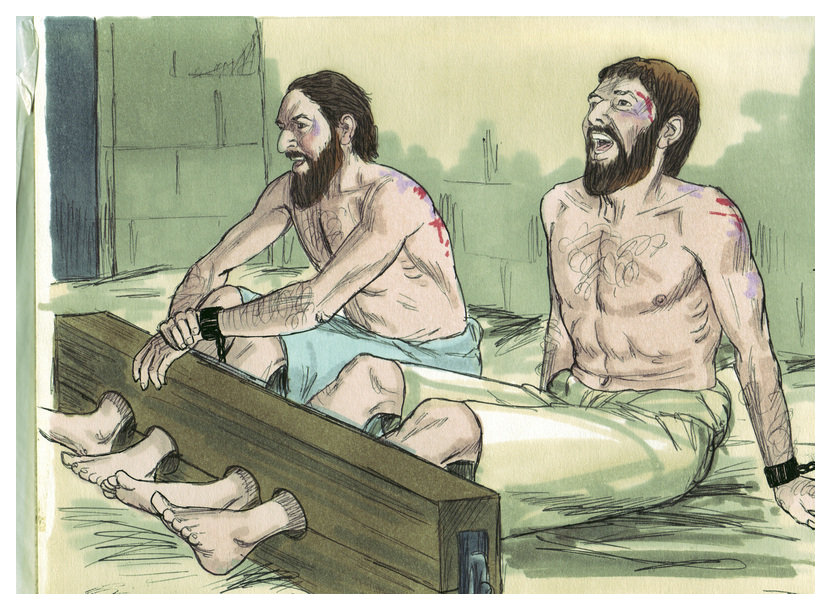 Biblical illustration of Acts of the Apostles Chapter 16